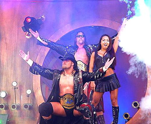 Chris Harris James Storm and Gail Kim aka Americas Most Wanted at TNA Impact taping in Orlando Florida Photo by Rob Beukema